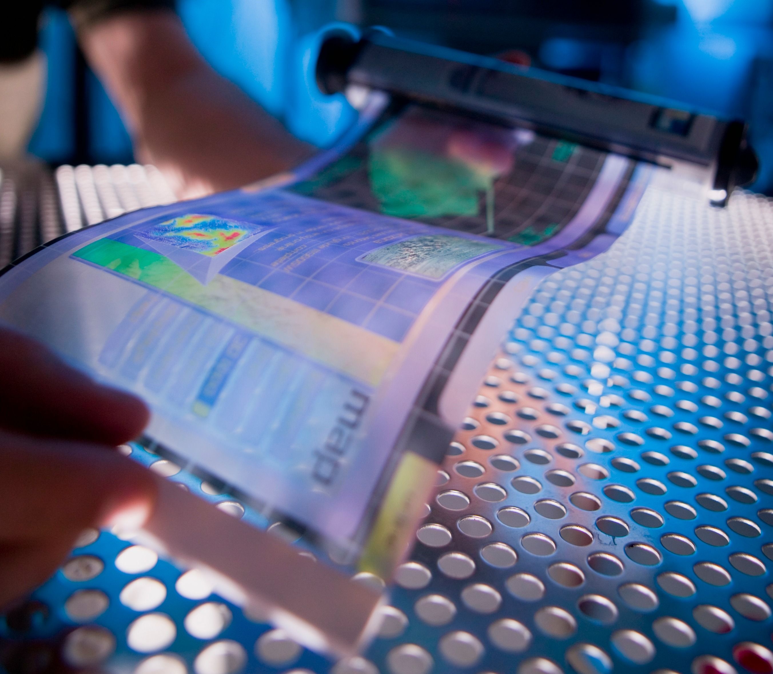 Flexible display technology developed by Arizona State University,, as funded by the U.S. Army